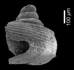 Lateral view of the protoconch of Atlanta brunnea, synonym: Atlanta fusca from the Pliocene. Locality: sample Anda2, Anda, Pangasinan, Luzon, Philippines. Registration number (RGM) 539 762.